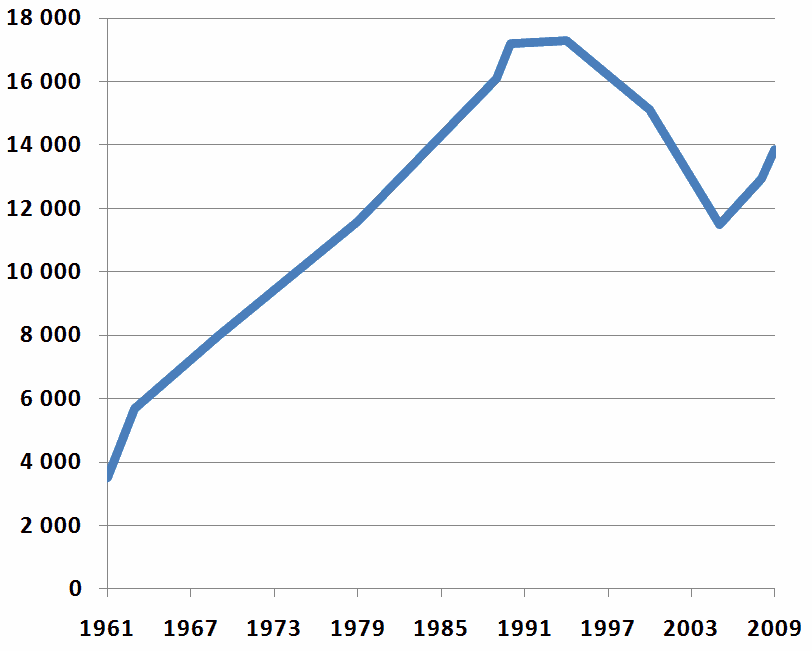 Baruun-Urt population dynamics 1961-2009